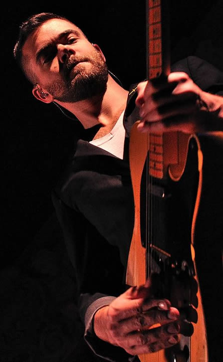 Scott Hoffman aka Babydaddy performing with Scissor Sisters at Bush Hall on December 4, 2010 - cropped